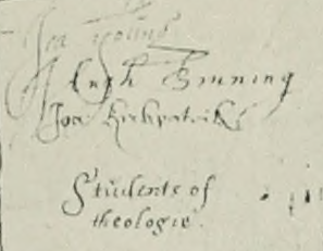 Hugh Binning's signature on the Solemn League and Covenant, Glasgow Uni. 1643